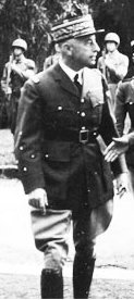 Arriving at Fedala to negotiate at armistice, 1I November 1942. General Auguste Paul Nogues, left, is met by Col. Hobart R. Gay, representing General Patton. (National Archives)